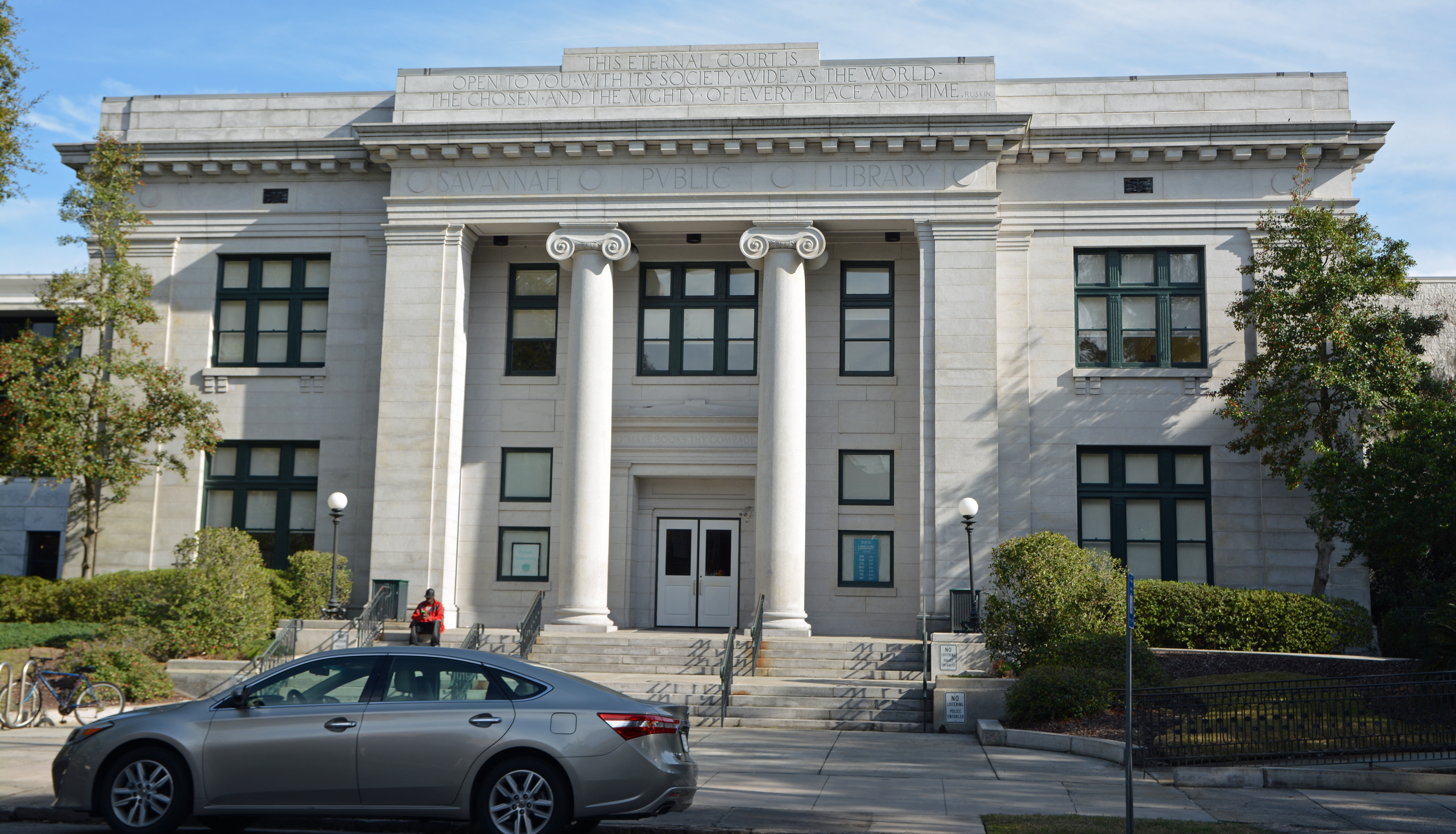 The Main Branch of the Savannah Library, a Carnegie library, 2002 Bull St, Savannah, Georgia, U.S.